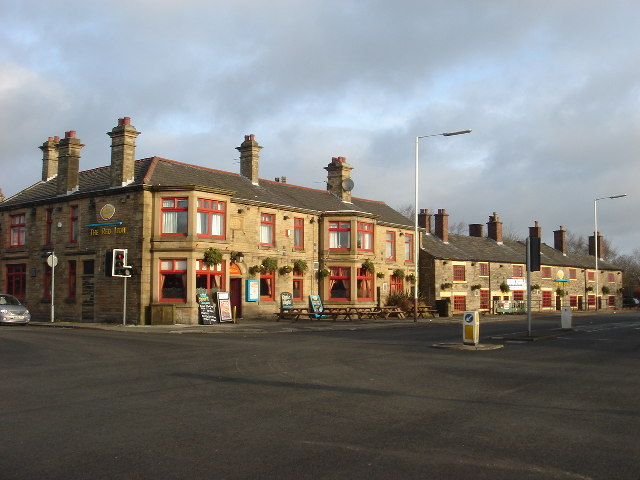 Red Lion, Over Hulton. This area is called 'Four Lane Ends', for the reason that it is a crossroads. One road leads to Manchester, one to Bolton, one to Chorley and Preston and one to Atherton and Leigh. The Red Lion occupies one corner and the Hulton Arms is diagonally opposite.